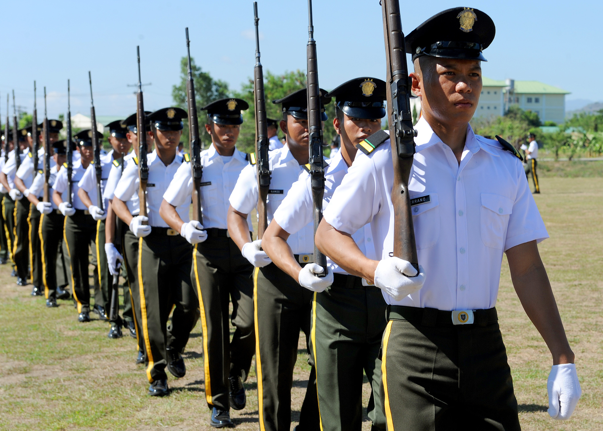 Philippine Army officer cadets march on the parade grounds during Balikatan 2013 at Camp O’Donnell, Philippines, April 6, 2013. Balikatan is an annual bilateral training exercise designed to increase interoperability between the Armed Forces of the Philippines and the U.S. military when responding to future natural disasters.